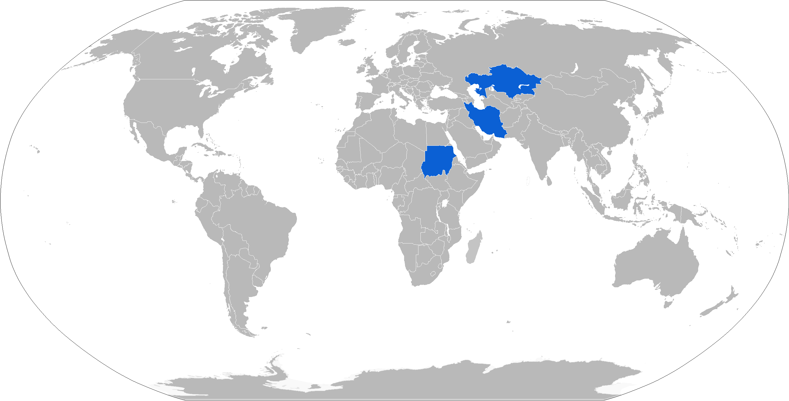 Map with Boragh operators in blue